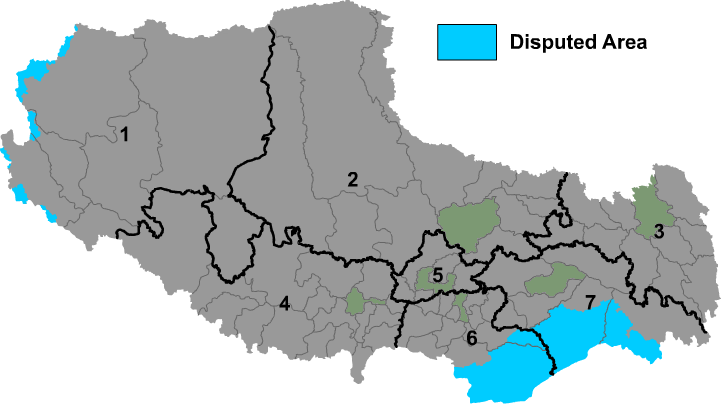 Map of prefectures of Tibet Autonomous Region